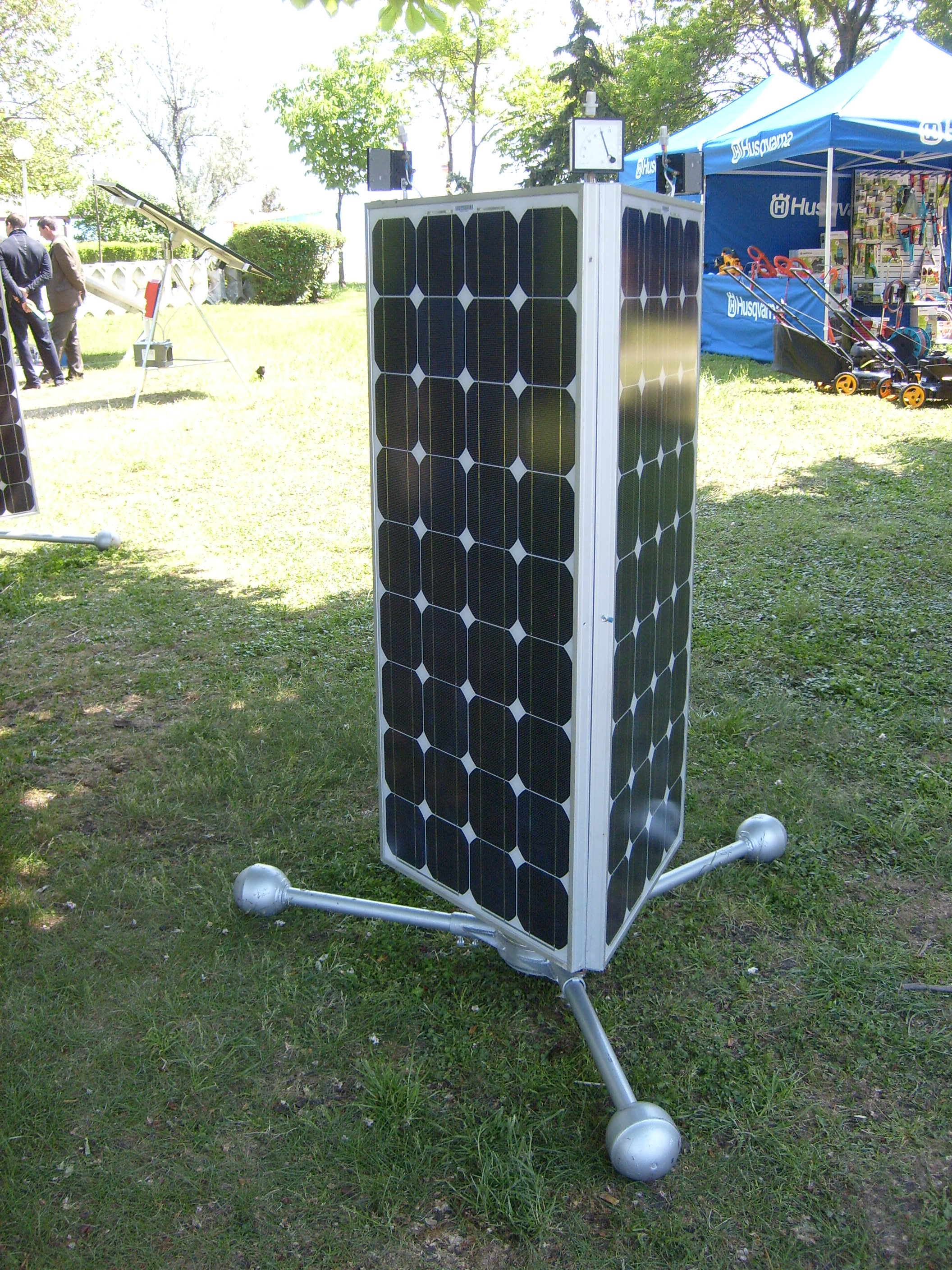 Solar panel